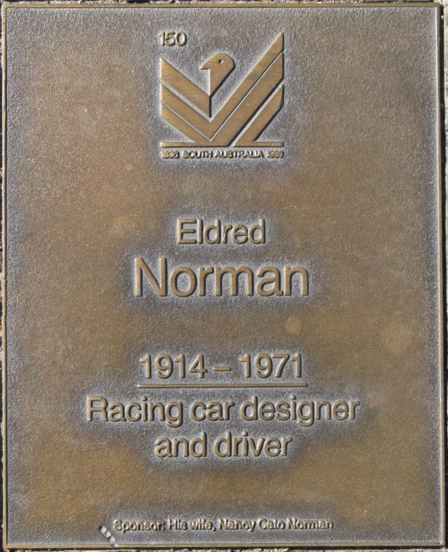 Jubilee 150 Walkway Plaque commemorating Eldred Norman